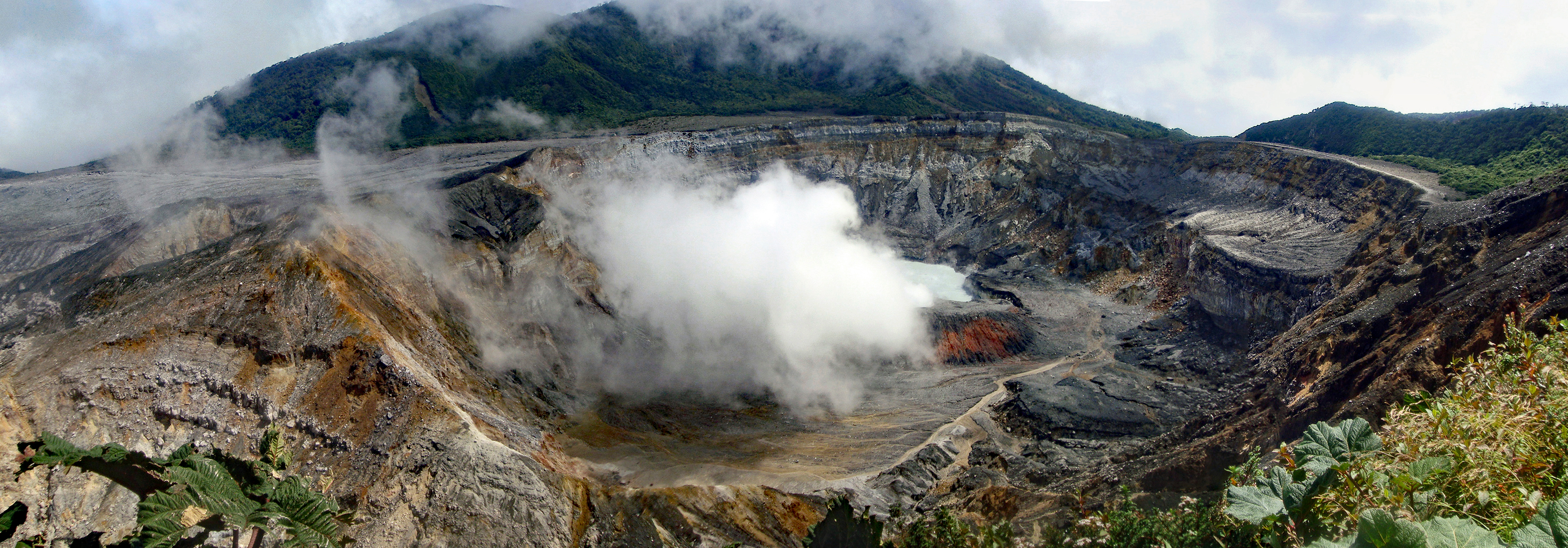 Panoramic view of Poas volcano crater with fumarole activity. Poas National Park, Alajuela, Costa Rica.